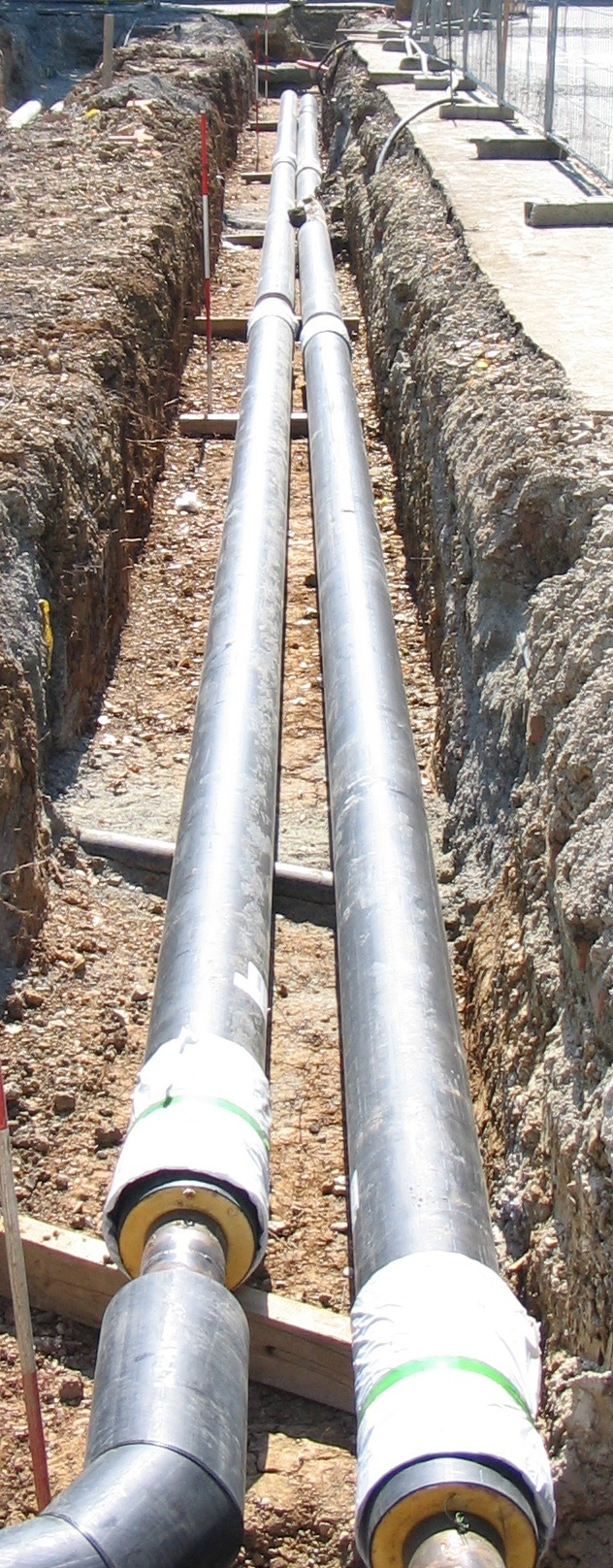 district-heating-pipeline made of preinsulated bonded pipe systems under construction before joints are applied; in Tübingen, Germany.